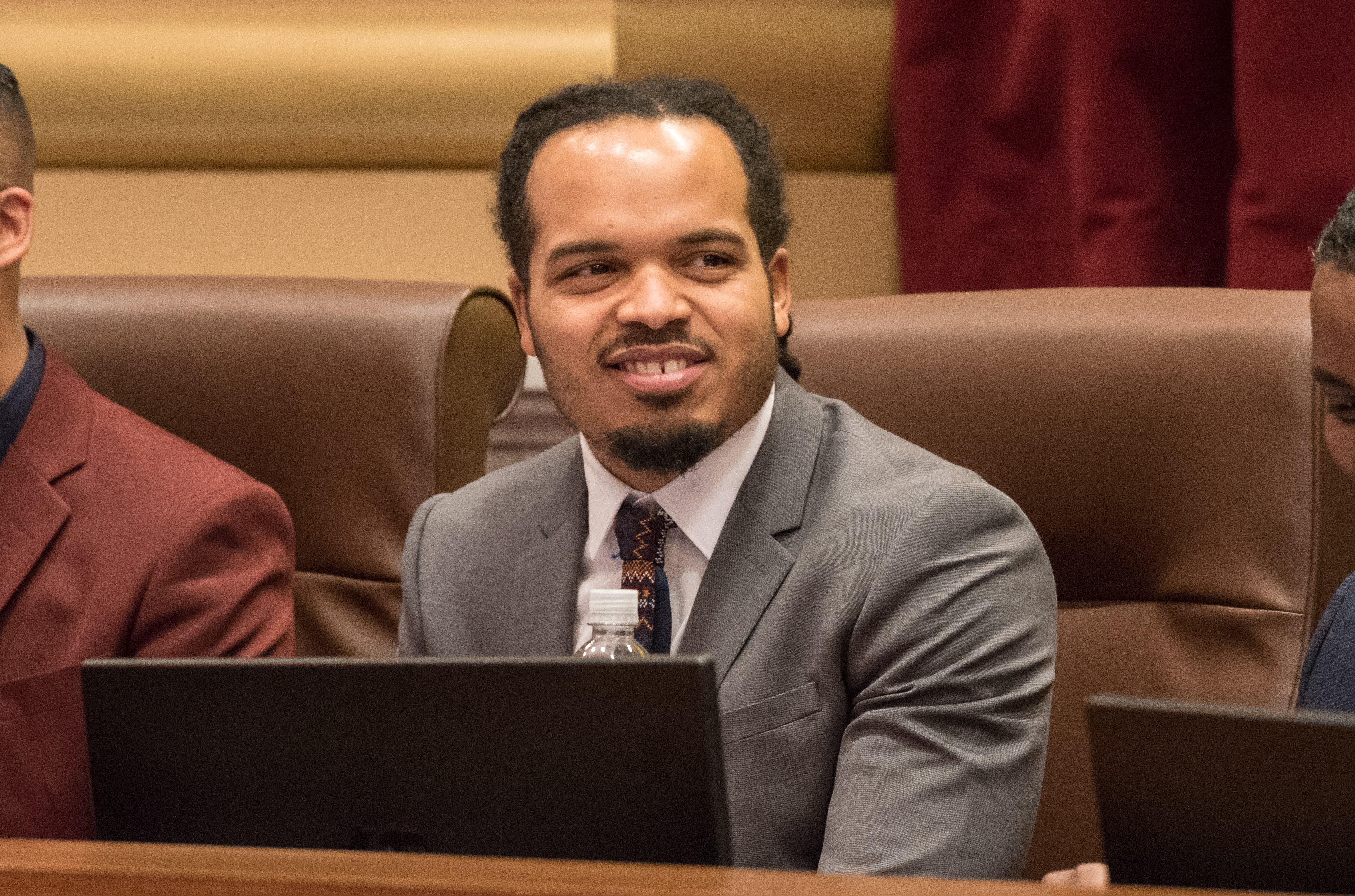 Minneapolis City Council Member Jeremiah Ellison (Ward 5, north Minneapolis) at the first organizing meeting of the new City Council.